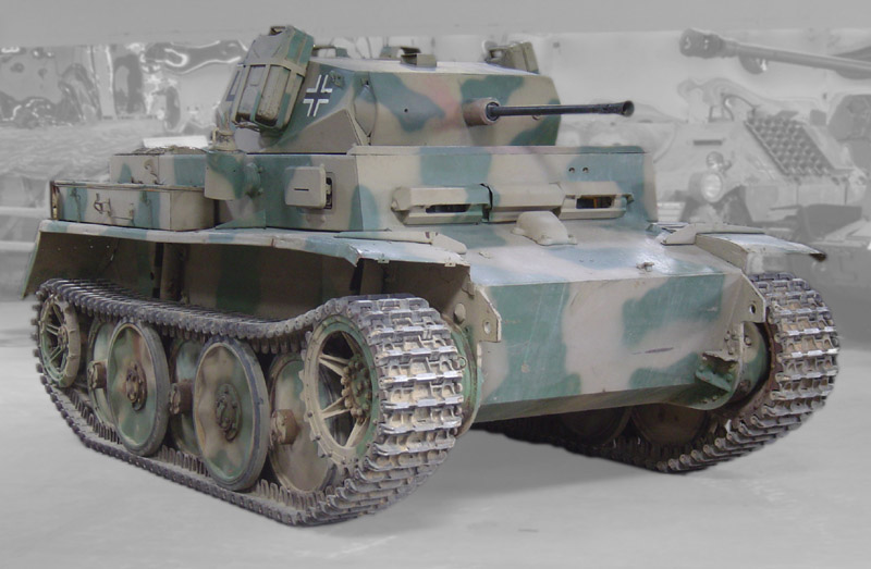 Panzer IIL (Luchs) on display at the Musée des Blindés in Saumur. The picture taken August 8, 2006.